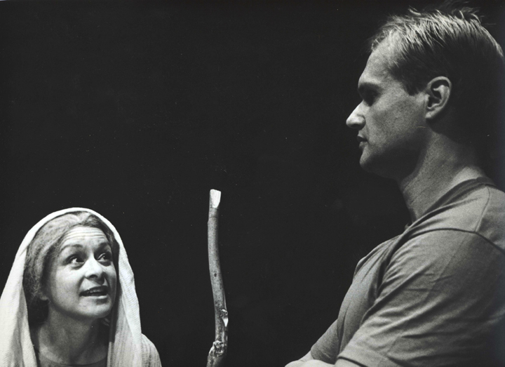 Willow Hale as Hebuba and Sterling Wolfe as Talthybios in Euri ARK Theatre Company in Los Angeles, 2003.